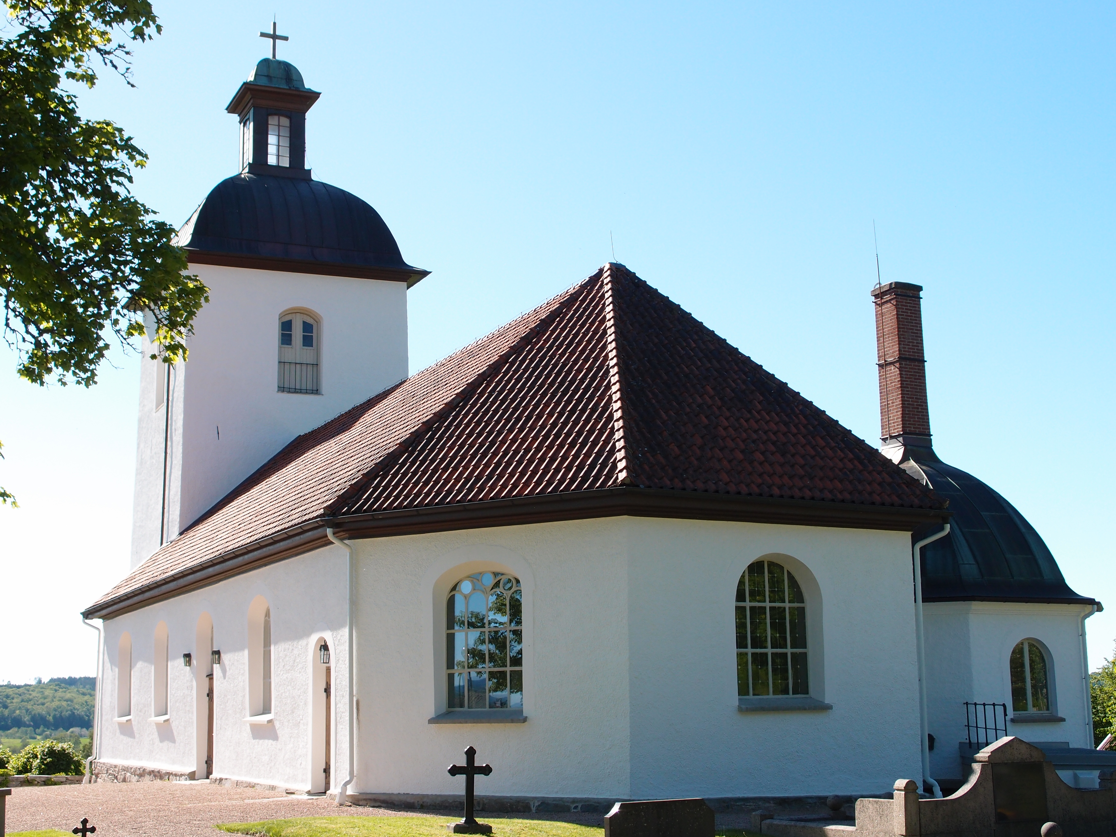 Surteby Church